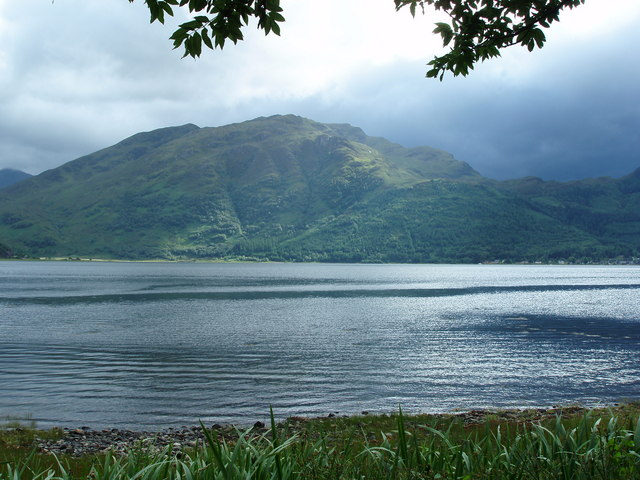 Sgùrr Mhic Bharraich across Loch Duich View from shoreline northwest of Dunan Diarmid.